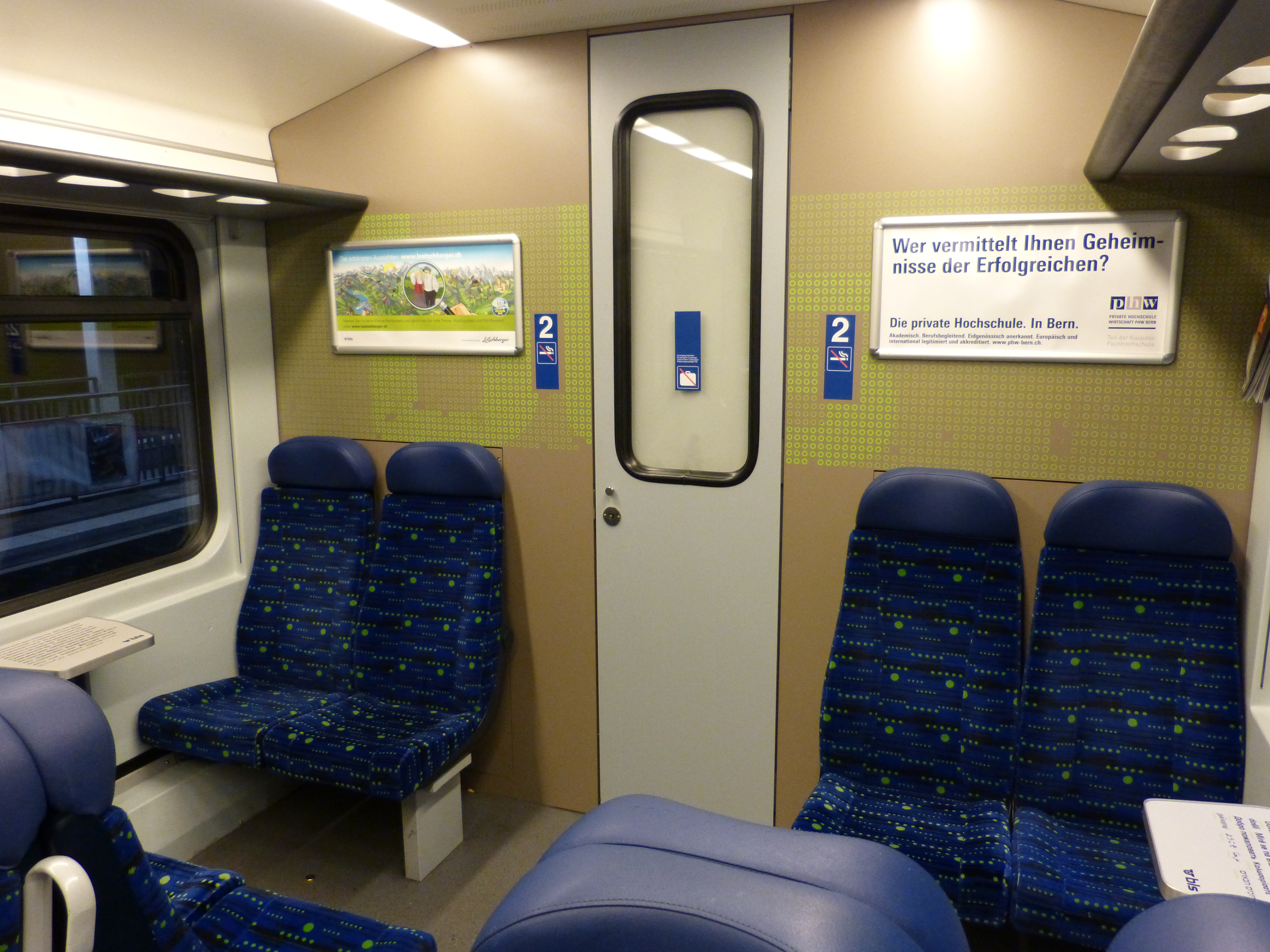 Inside of the multiple unit NINA RABe 525 034-5, 2nd class compartment.